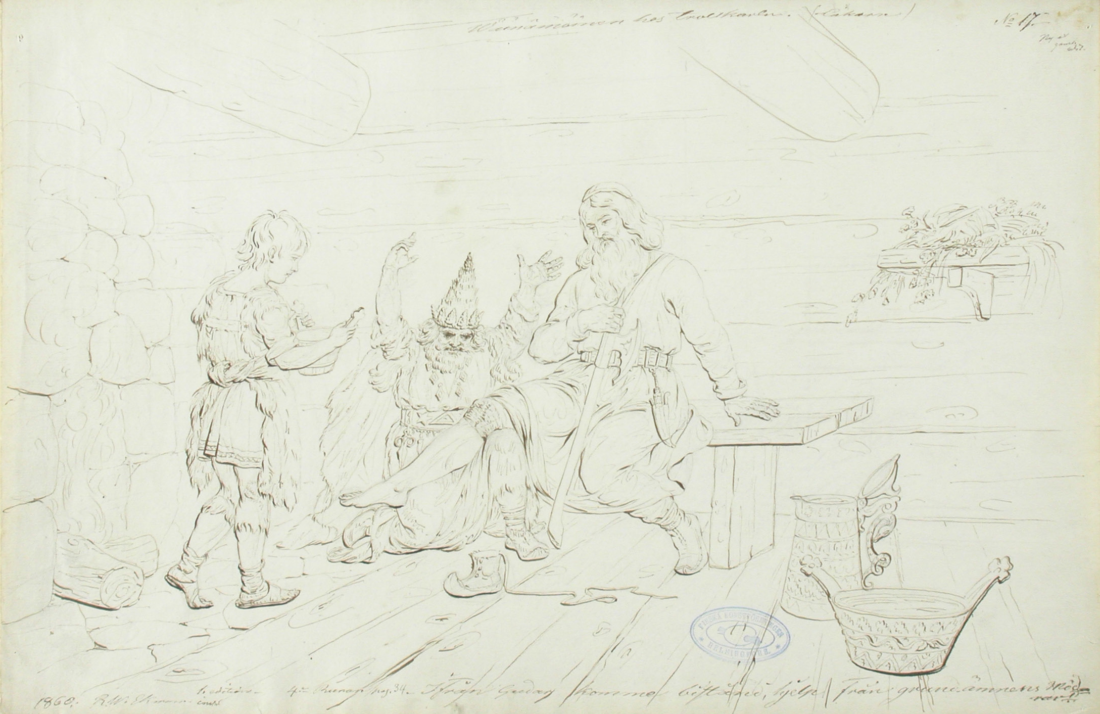 From the 9th song of Kalevala where an old man heals Väinämöinen’s knee wound.